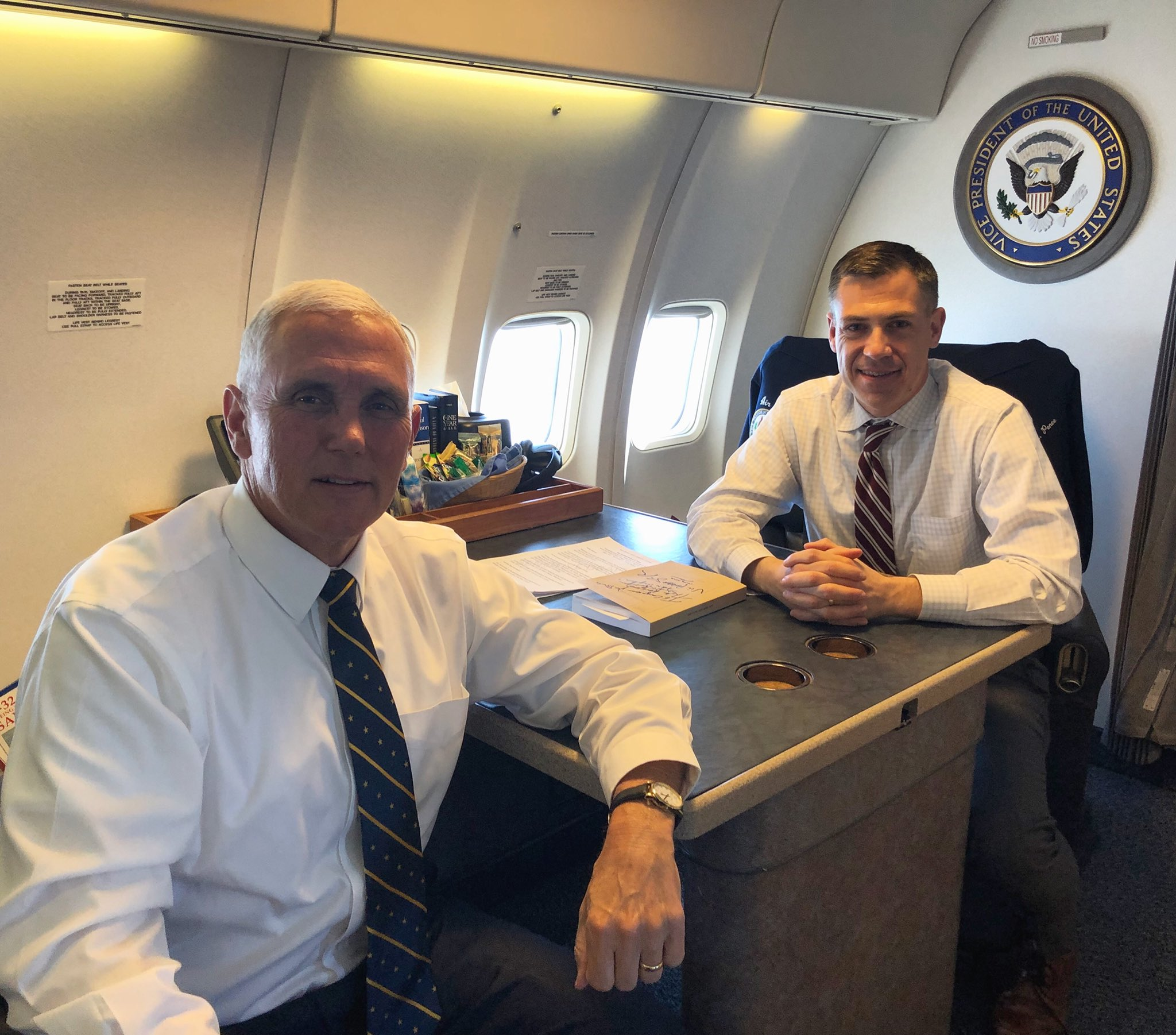 My commute back home to Indiana went a little quicker today. It was an honor to join Vice President Mike Pence aboard Air Force Two this afternoon.